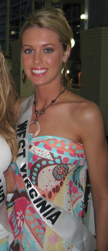 Jessica Wedge (Miss West Virginia USA 2006), in a picture taken during a party prior to the Miss USA 2006 pageant.